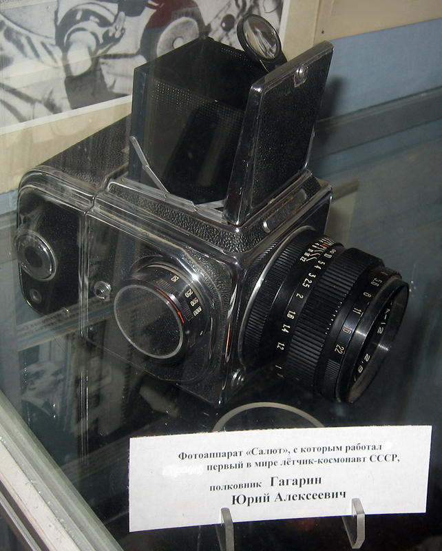 Soviet medium-format camera "Salyut" that belonged to Y. Gagarin